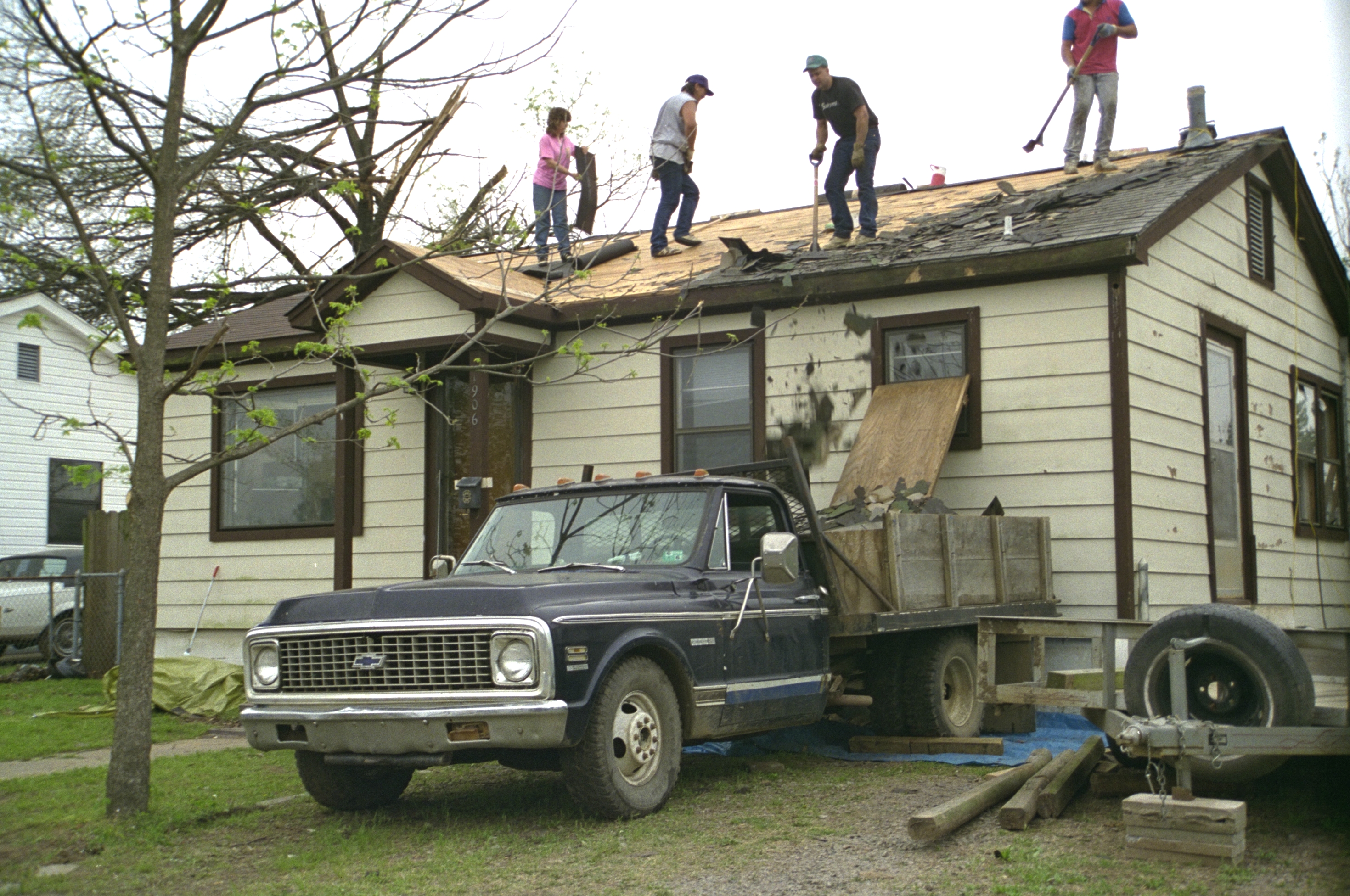 Dade County, FL, August 24, 1992 -- Many houses, businesses and personal effects suffered extensive damage from one of the most destructive hurricanes ever recorded in America. One million people were evacuated and 54 died in this hurricane. FEMA News Photo